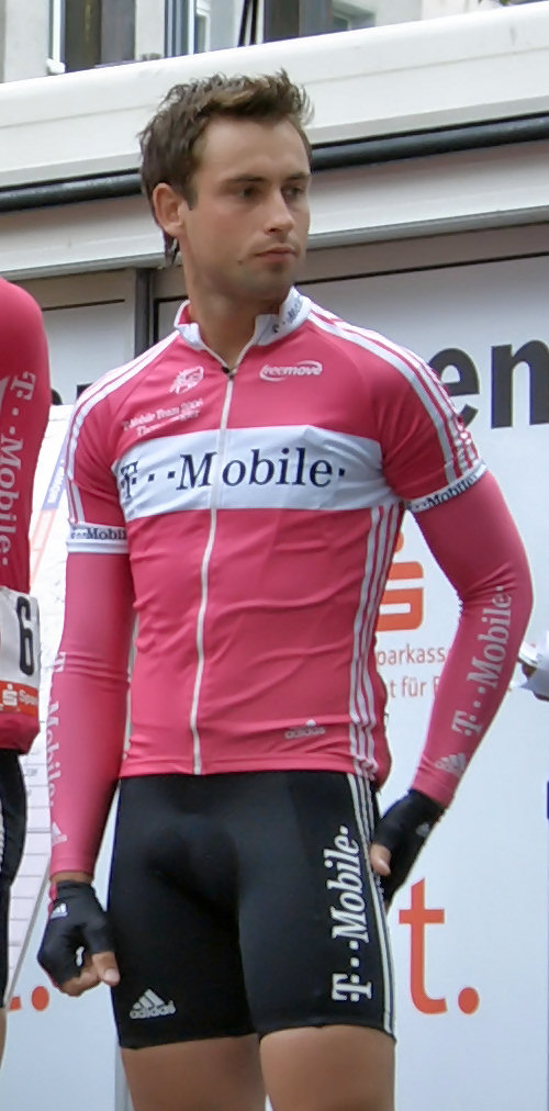 Thomas Ziegler at Sparkassen Giro Bochum